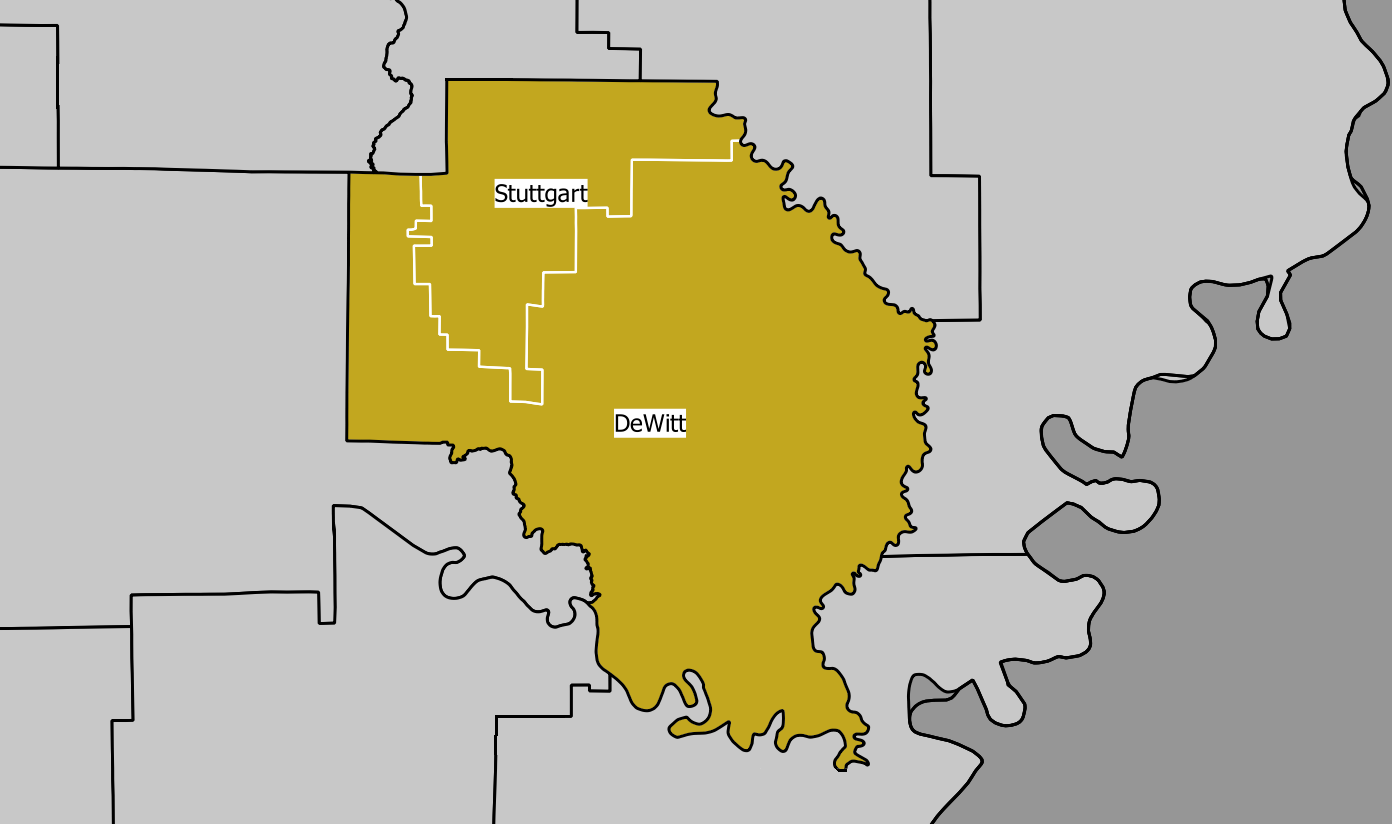 Map of all public school districts in Arkansas County, AR (mustard) This graphic was created with QGIS Counties Data source: Arkansas GIS Office. Data Provided by Arkansas State Highway and Transportation Department, In Cooperation With The U.S. Department of Transportation Updated 2014-10-16 Public School District Boundary (polygon) (only shown within county of interest): Data source: Arkansas Secretary of State and the Arkansas Geographic Information Systems Office Updated: 2016-07-22